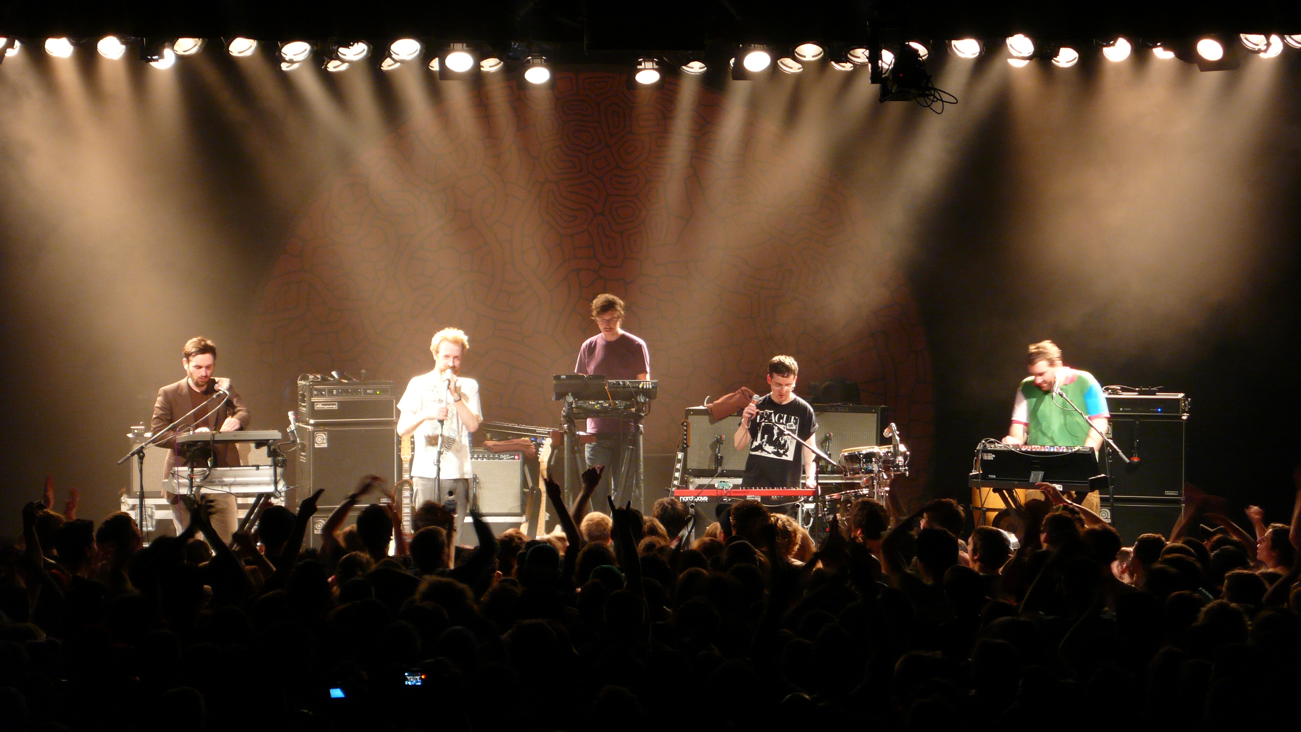 Hot Chip at Commodore Ballroom in Vancouver, Canada